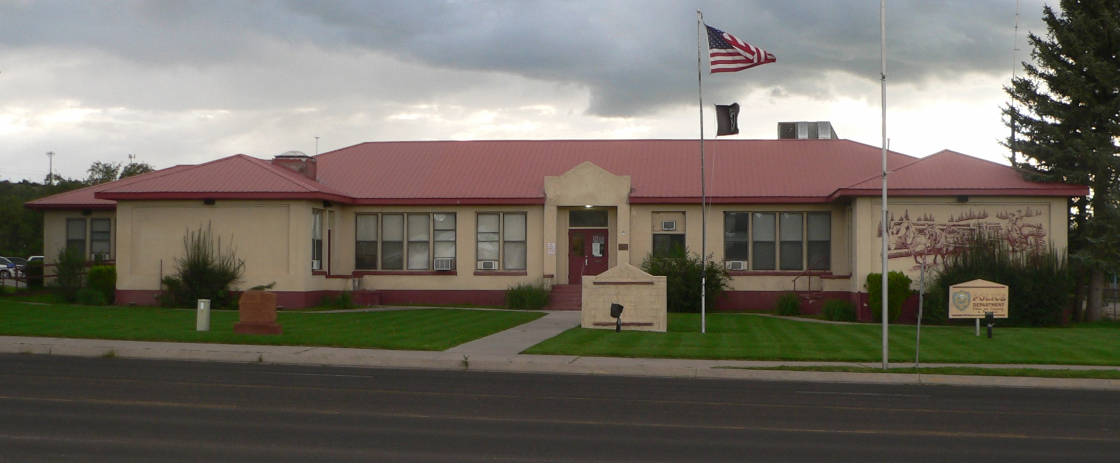 Eagar police station, located at174 S. Main Street in Eagar, Arizona; seen from the east.